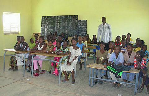 Students at Thiabakh elementary school sit in the classroom at Ndioum refugee camp in Ndioum, Senegal, November 2011.